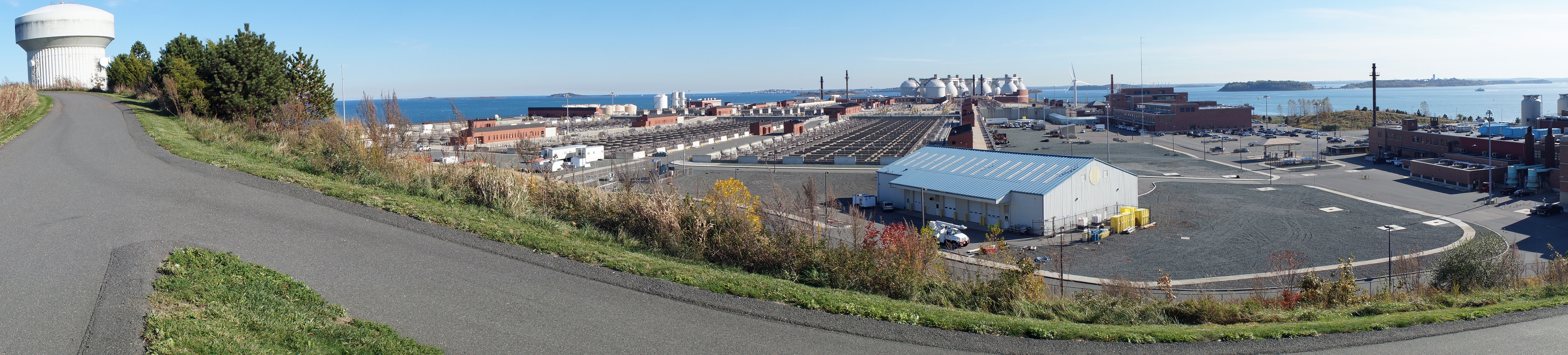 Wastewater treatment plant serving the communities of greater Boston and Boston Harbor. Located on Deer Island, Winthrop, Massachusetts.